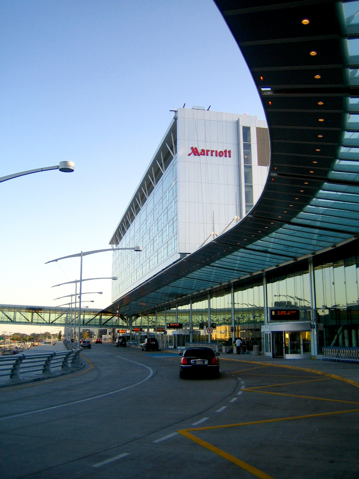 New Marriott hotel + the new U.S. Departures sector at Montréal-Pierre Elliott Trudeau International Airport (YUL) in September 2009.